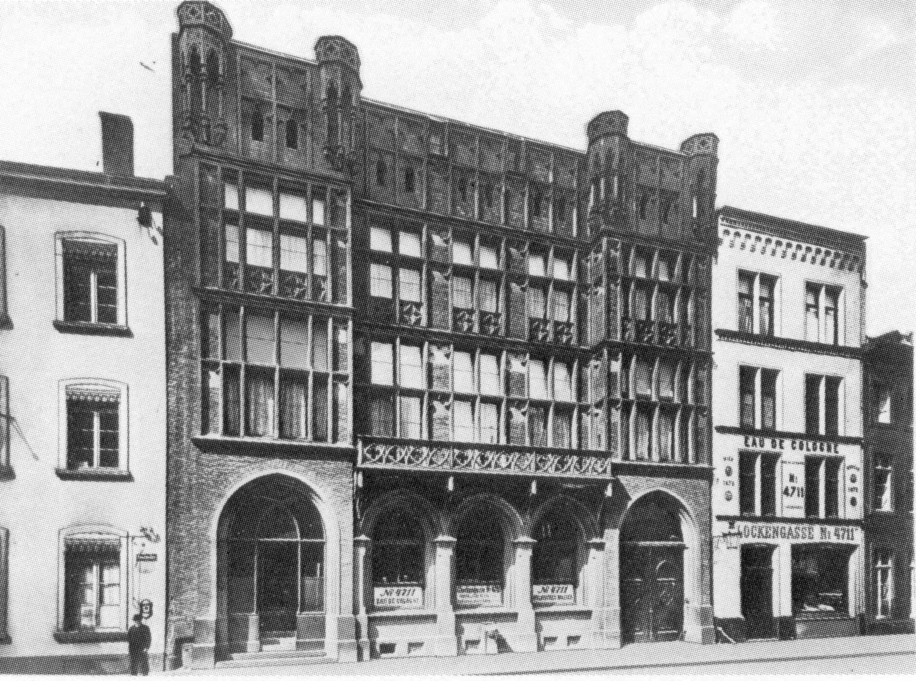 Glockengasse No.24-28 in Cologne in the year 1865